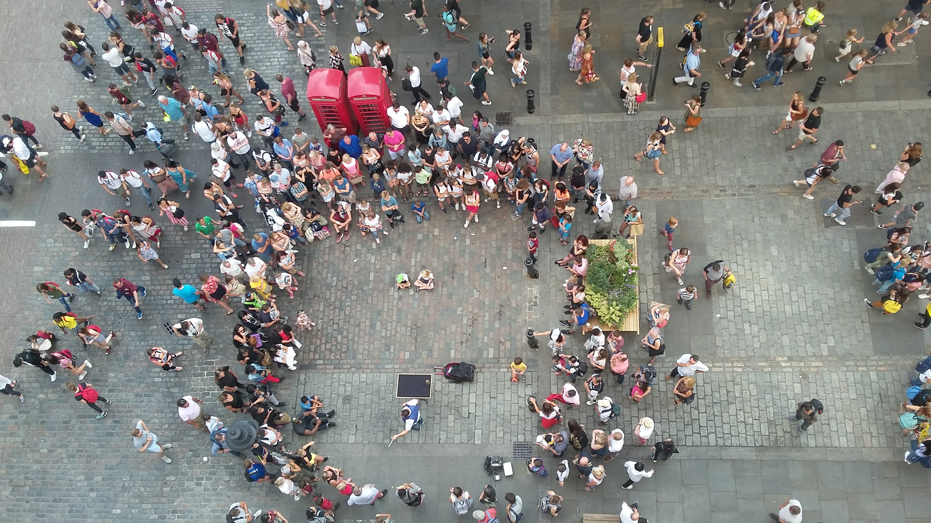 Street performance in Covent Garden, July 2018